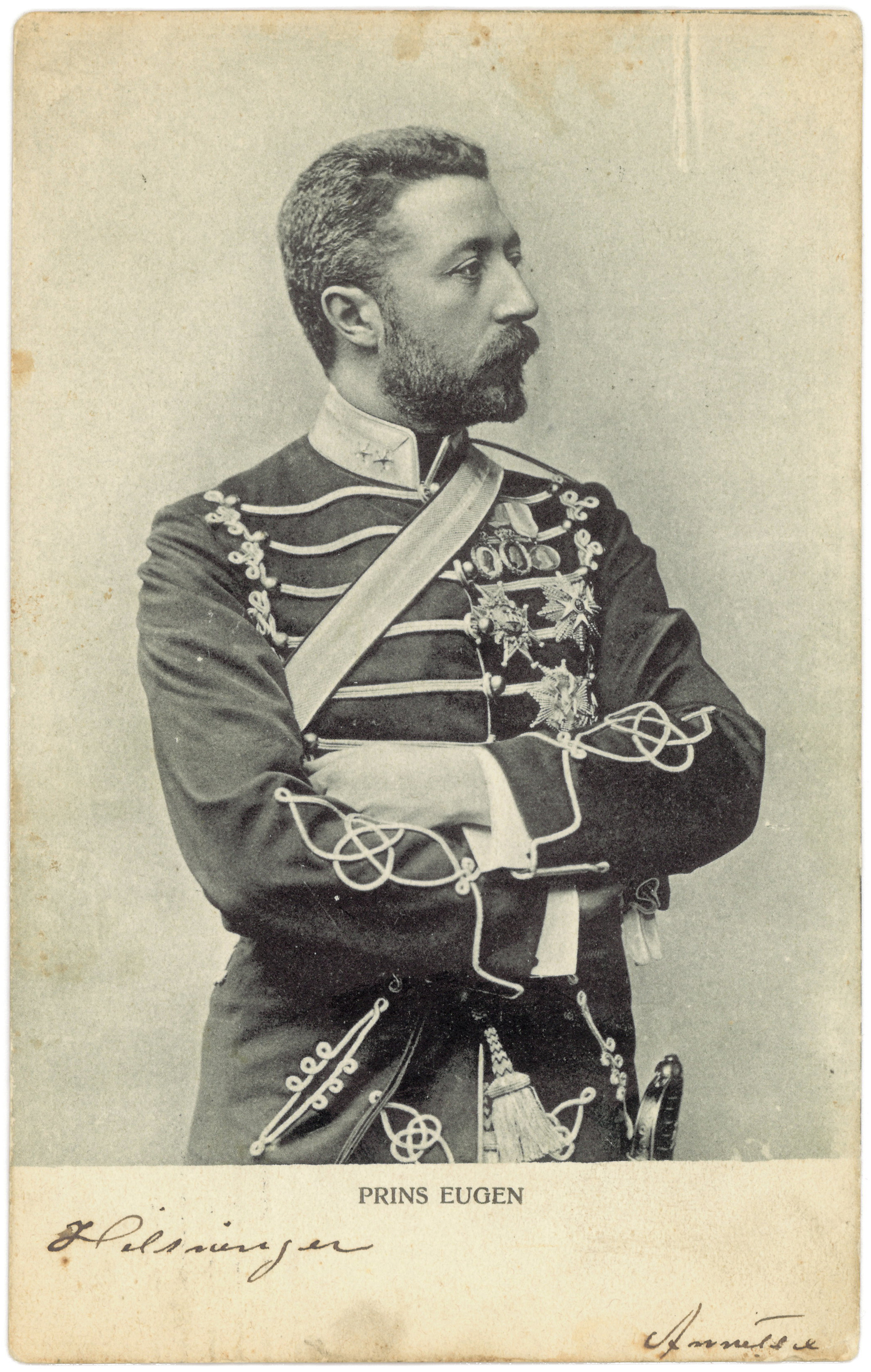 Format: Fotopositiv (Postkort) Dato / Date: Poststemplet Stockholm 30 August 1905 Fotograf / Photographer: Ukjent Eier / Owner Institution: Trondheim byarkiv, The Municipal Archives of Trondheim Arkivreferanse / Archive reference: Tor.H4x.Bxx.Fxxxx